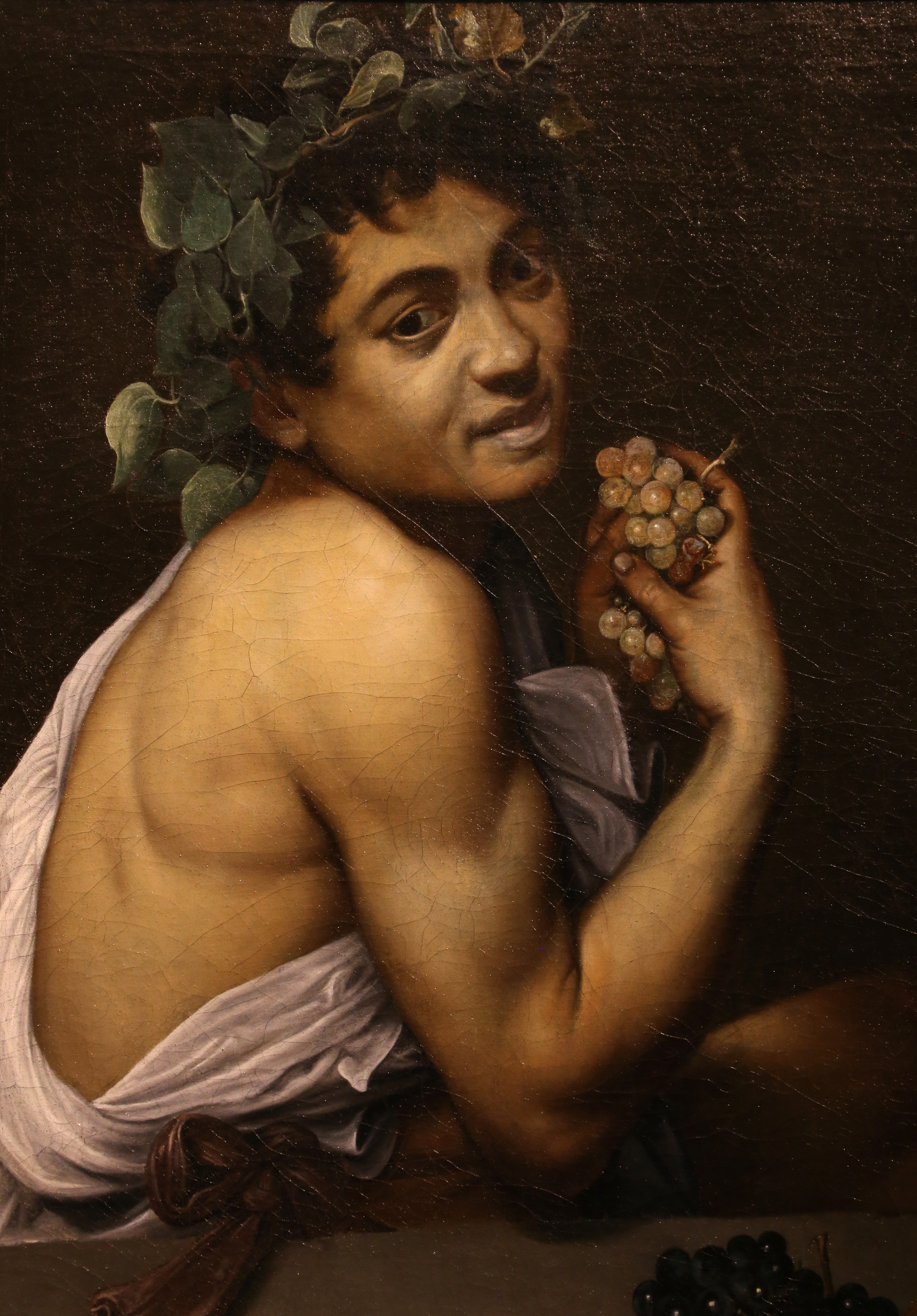 Paintings in Galleria Borghese (Rome)